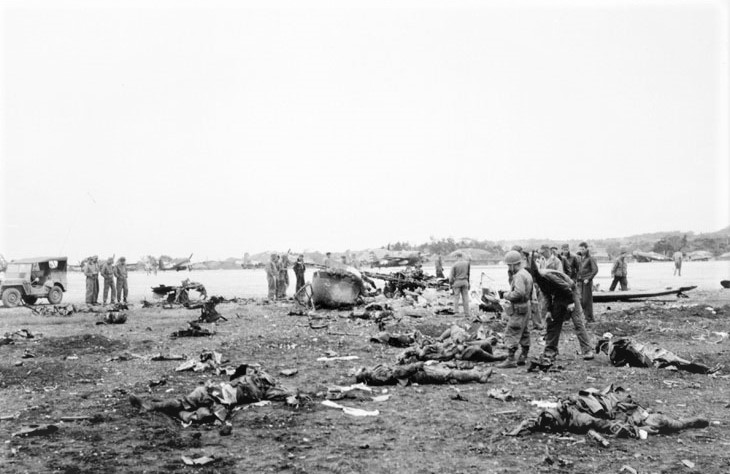 This Japanese transport converted-bomber made a night crash landing on Yontan airfield, Okinawa, to unload a dozen suicidal airborne troops.